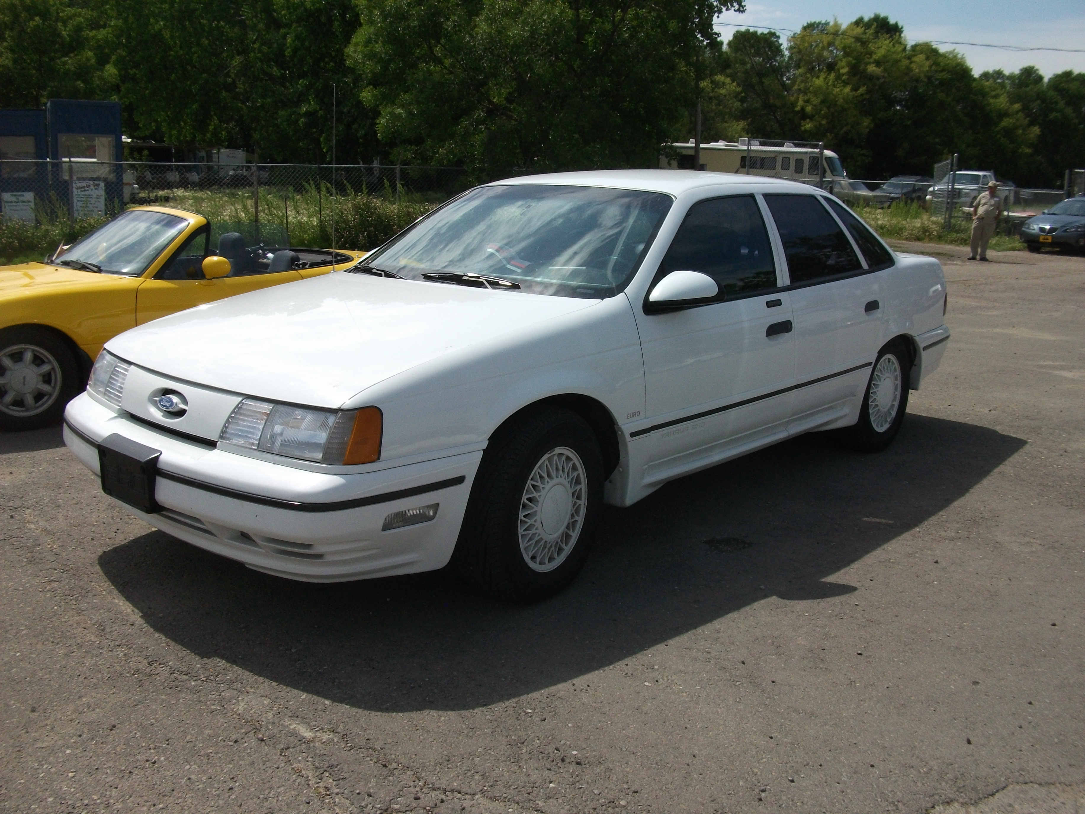 Always nice to see a Ford Taurus SHO in good shape.